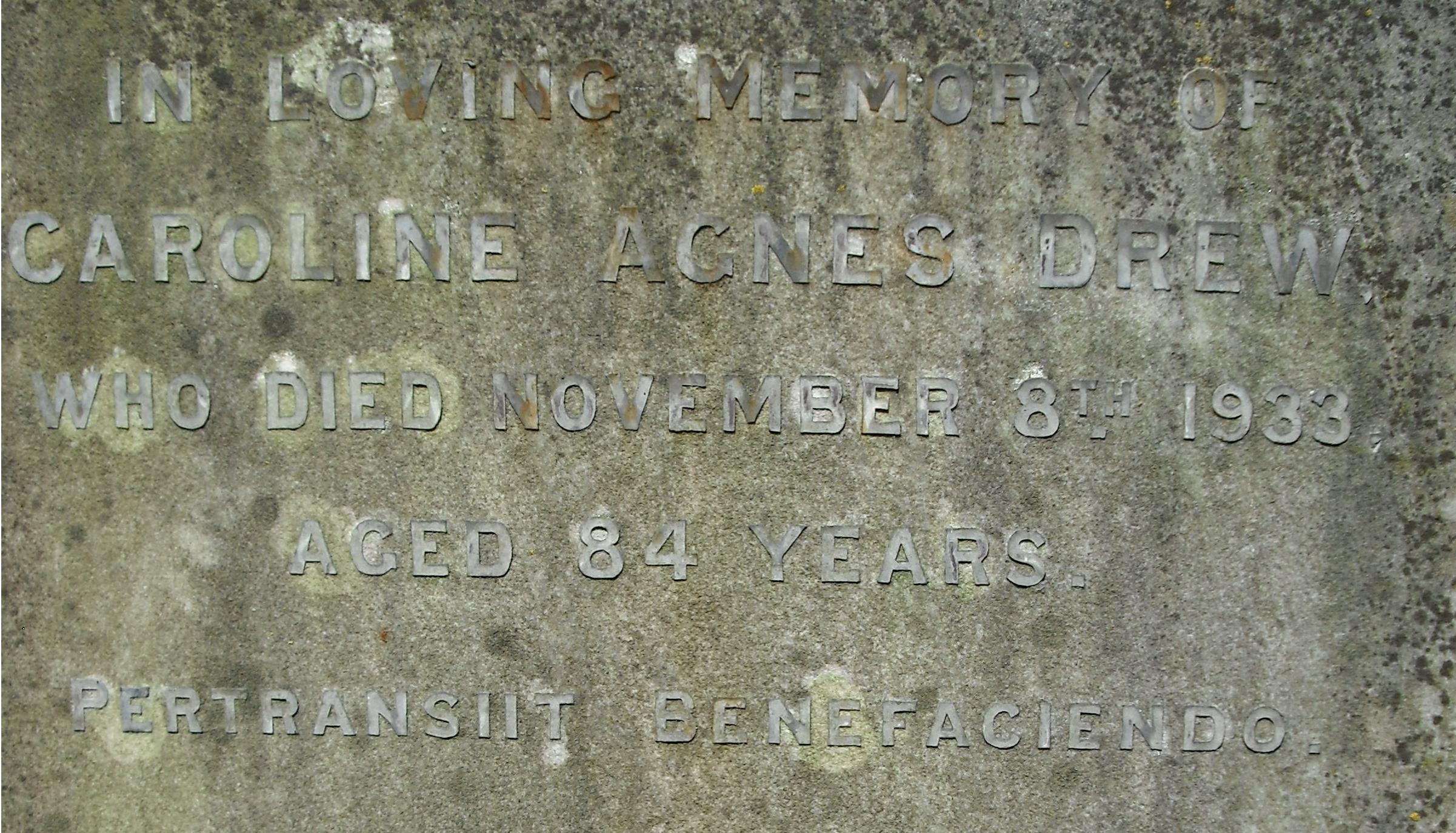 Photo of a plaque on the Drew family memorial at Melcombe Regis Cemetery, Dorset, England. The inscription is in memory of Caroline Agnes Drew died 1933 and includes the Latin phrase PERTRANSIIT BENEFACIENDO. Pertransit benefaciendo